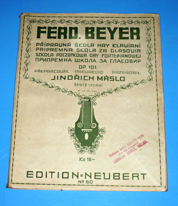 Beyer, Máslo: Preparatory school for piano